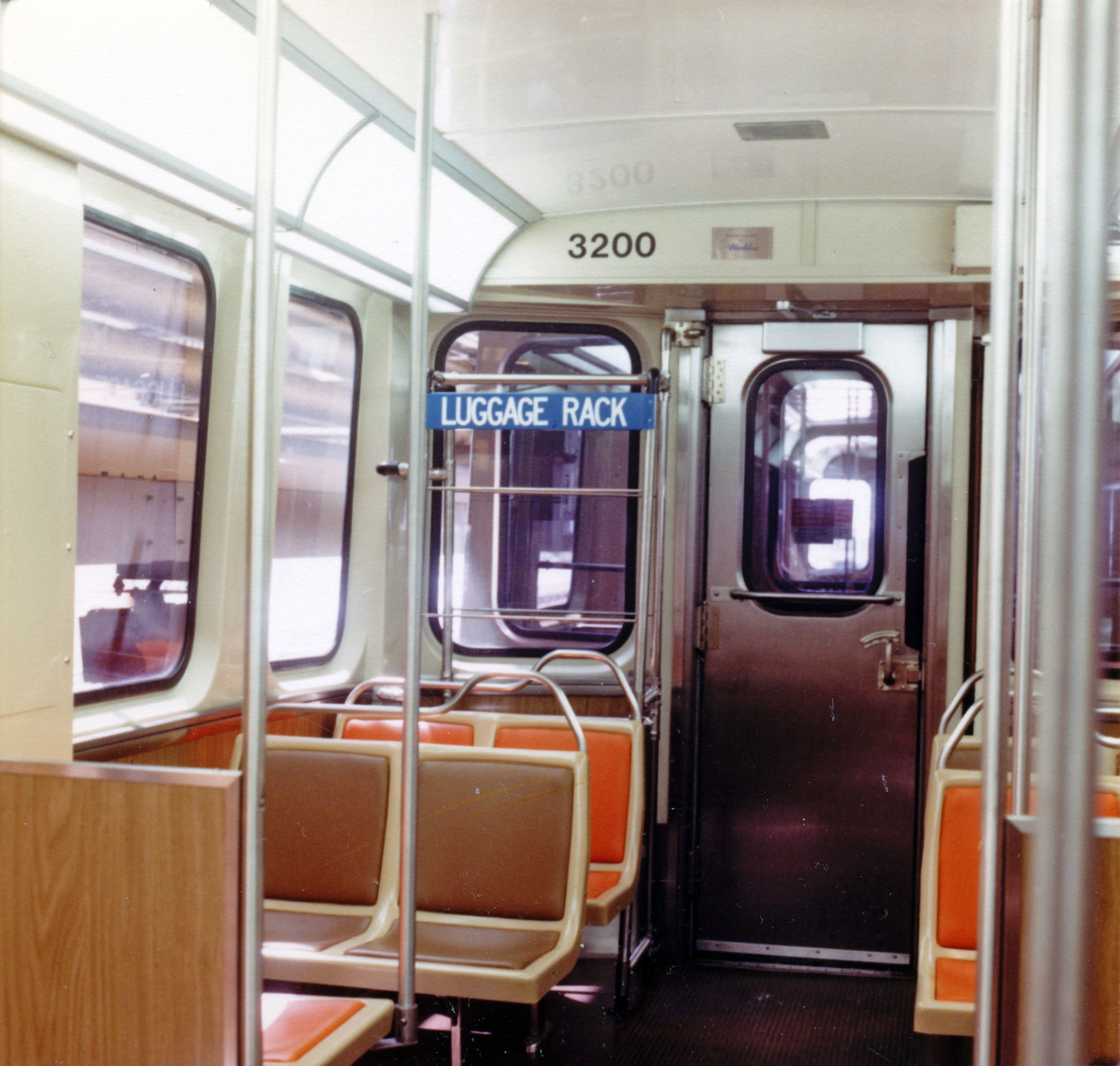 Blue Line with luggage rack in the 1980s.